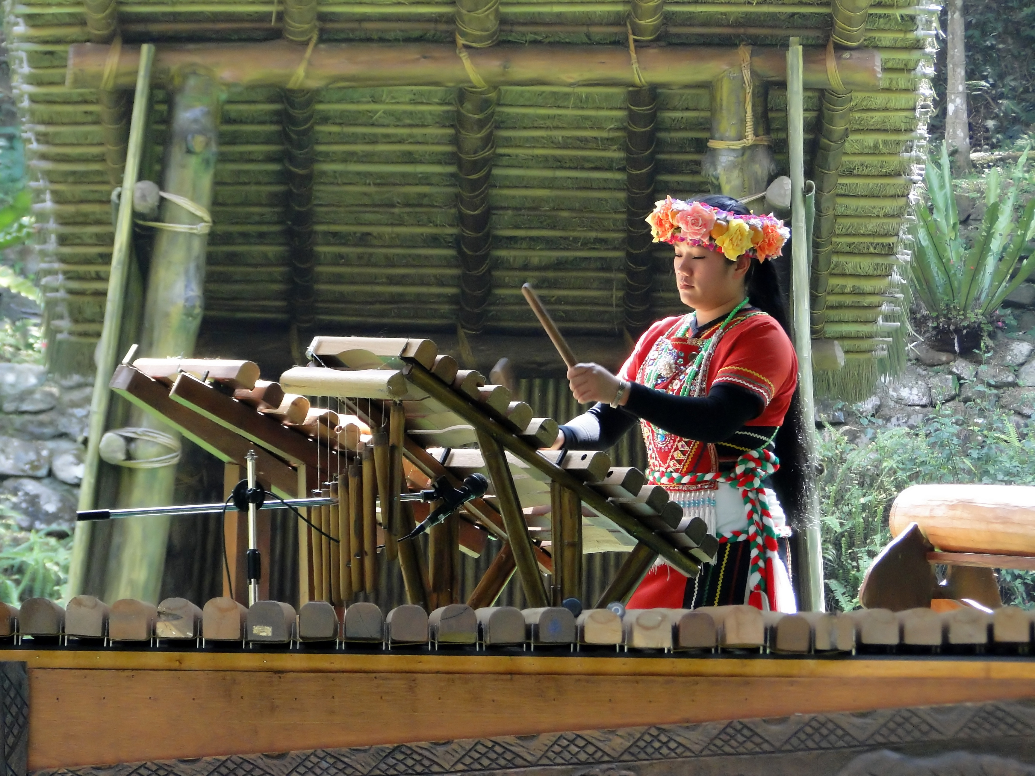 Young girl playing music in Pestle Music Theater in the Formosan Aboriginal Culture Village, Taiwan